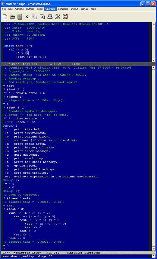 OpenLisp runnning inside GNU Emacs